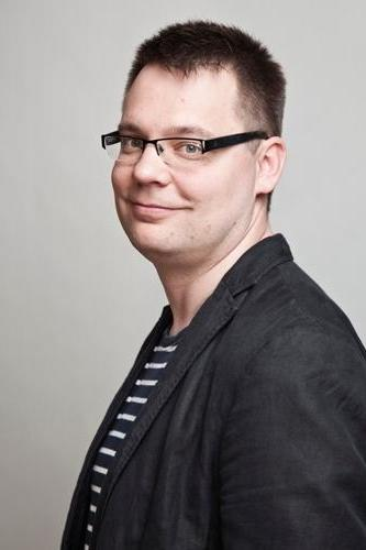 Gergely Litkai